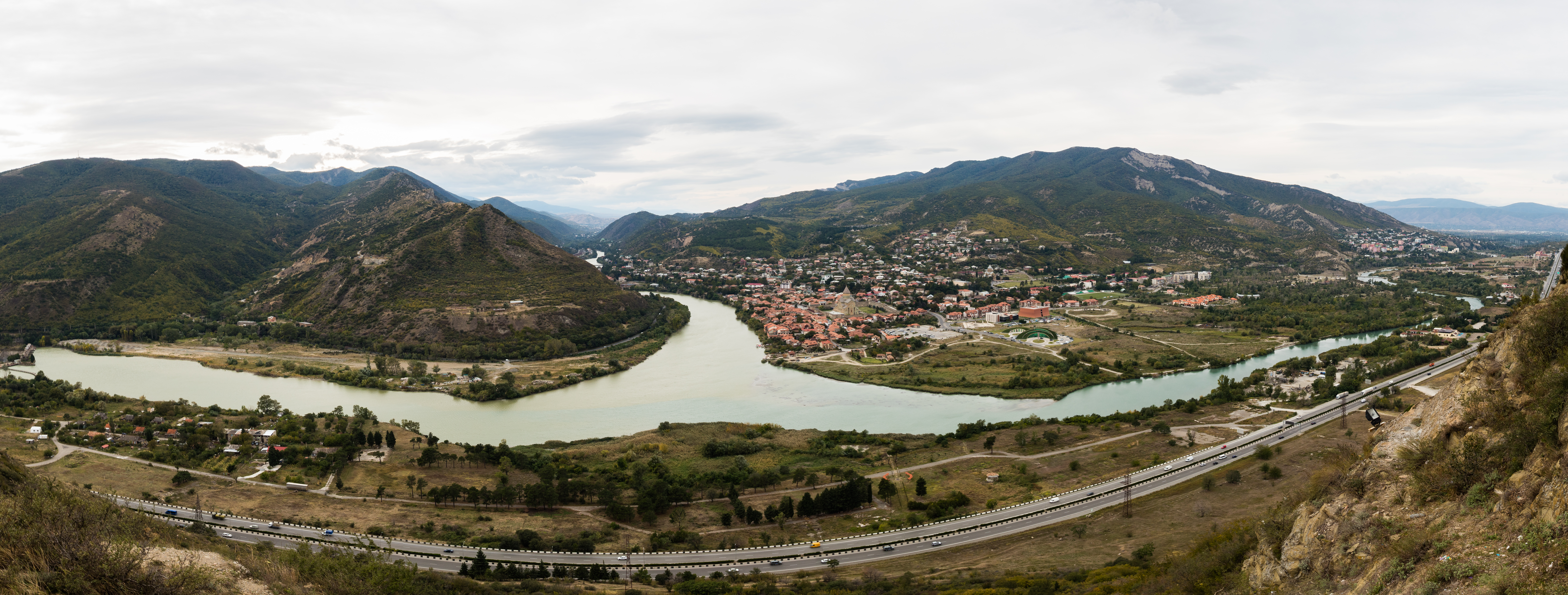 View of Mtskheta, Georgia